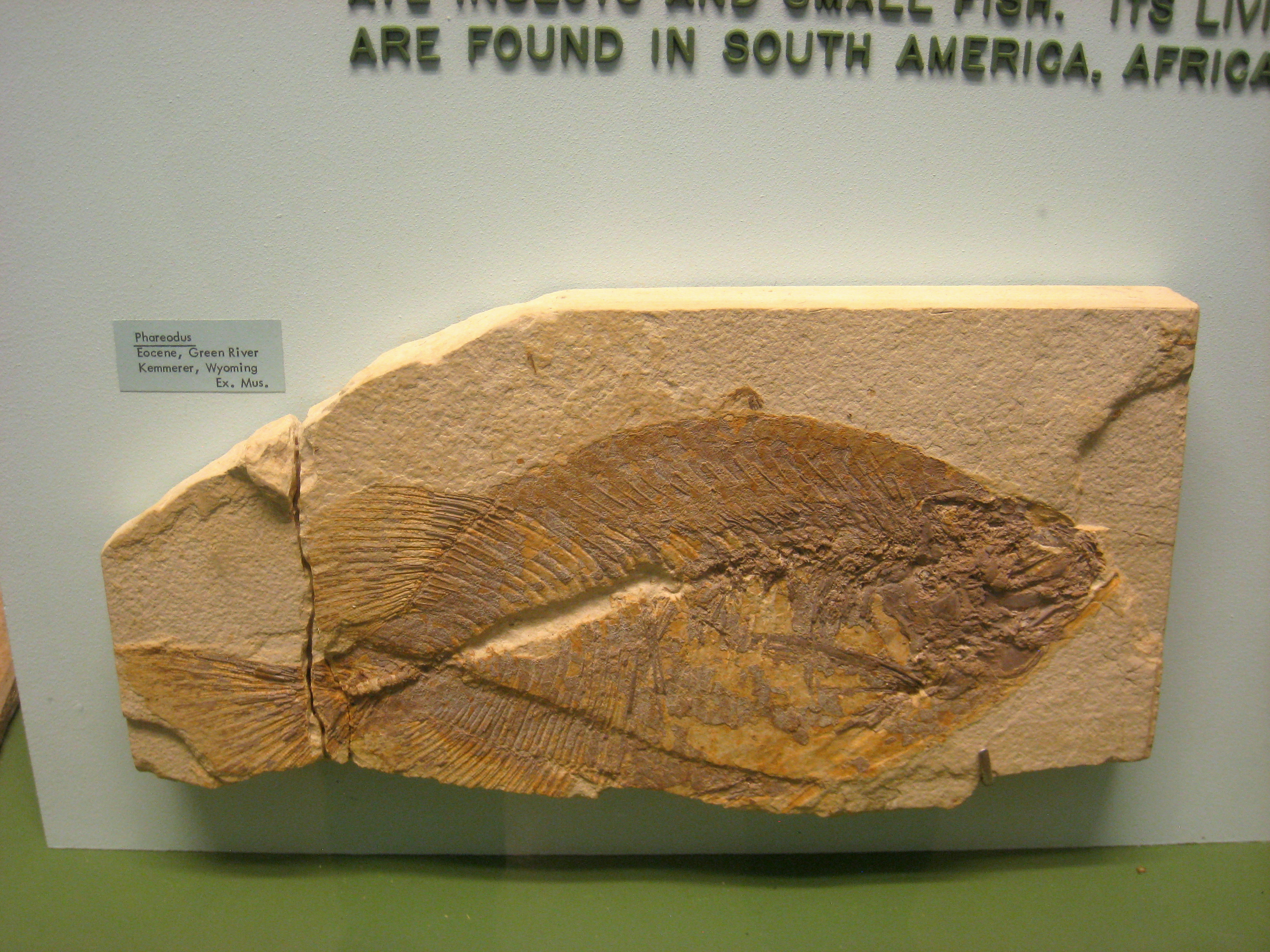 Phareodus. Exhibit Museum of Natural History, University of Michigan, 1109 Geddes Avenue, Ann Arbor, Michigan, USA.